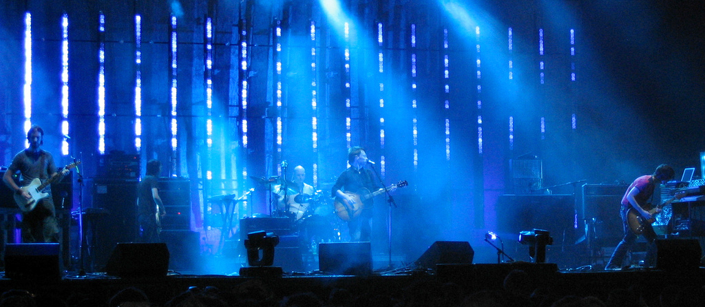 Cropped and brightened version of Image:Radiohead Coachella 2004.jpgRadiohead performing at the Coachella Valley Music and Arts Festival in Indio, California on May 1, 2004. The last show of their Hail to the Thief tour.